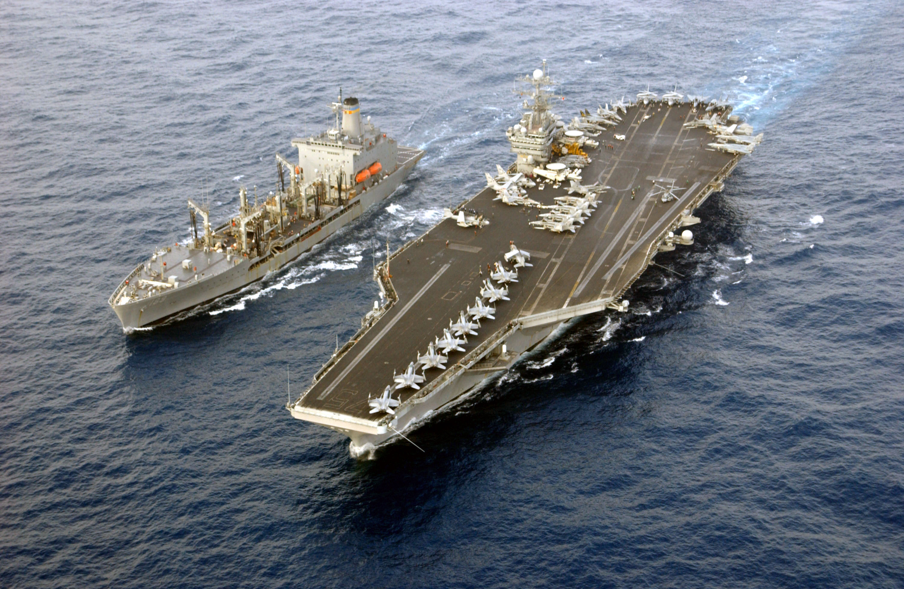 The Mediterranean Sea (Apr. 3, 2003) -- USS Harry S. Truman (CVN 75) comes alongside the Military Sealift Command Oiler USNS John Lenthall (T-AO 189) for an underway replenishment (UNREP) while U.S. Coast Guard Cutter Dallas (WEHC-716) performs duties as plane guard. Truman and Carrier Air Wing Three (CVW-3) are deployed in support of Operation Iraqi Freedom, the multi-national coalition effort to liberate the Iraqi people, eliminate Iraq's weapons of mass destruction, and end the regime of Saddam Hussein. U.S. Navy photo by Photographer’s Mate 3rd Class Christopher B. Stoltz. (RELEASED)